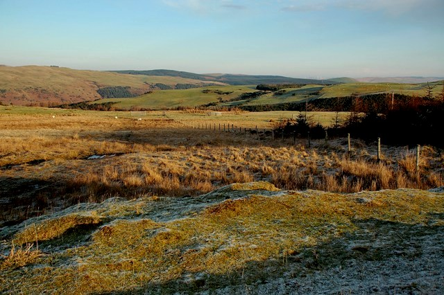 Towards Dalreoch Burn Upland farming country, viewed on a frosty December morning. The small valley of Dalreoch Burn, in the same square, is visible in the background of this shot.